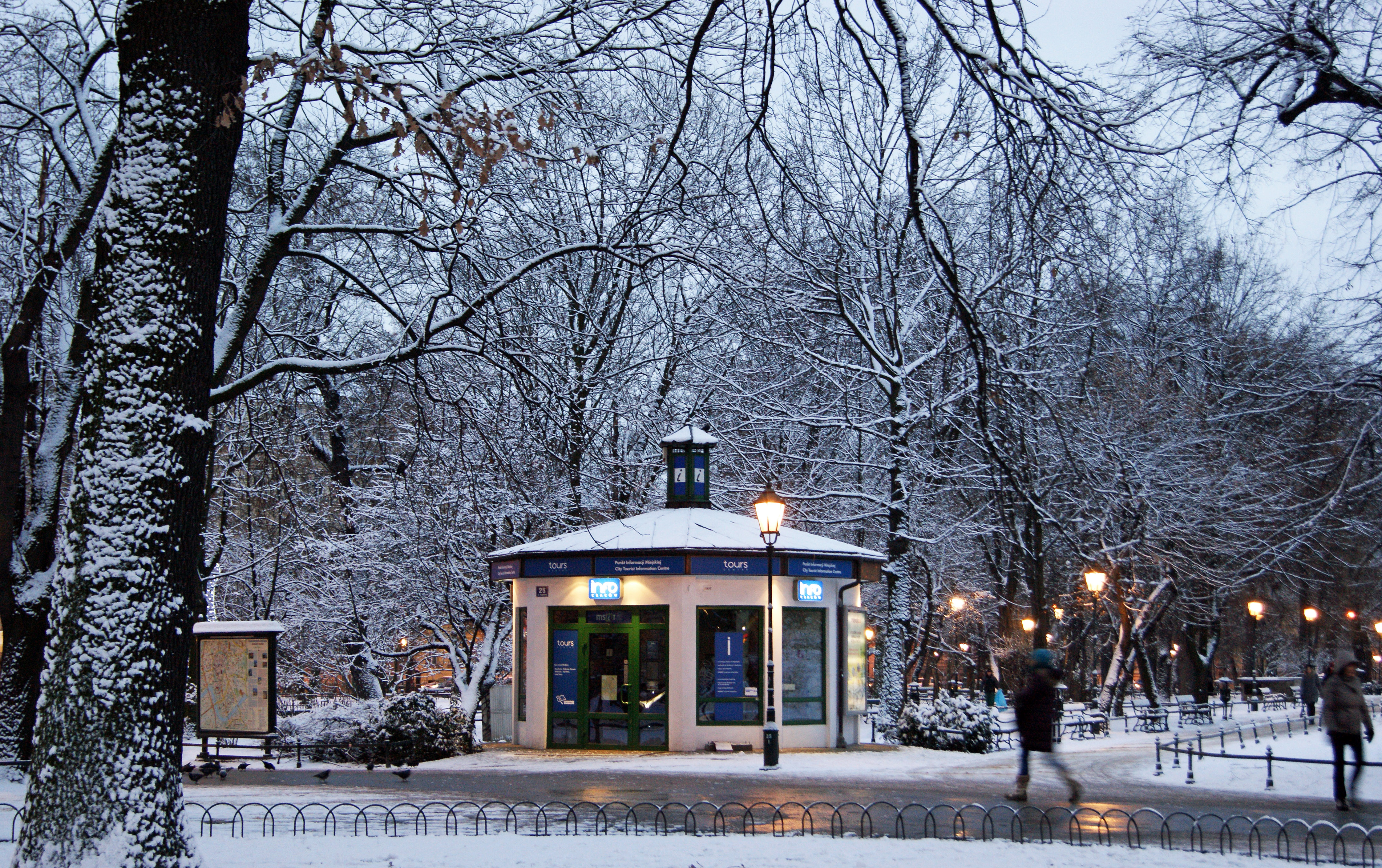 City Tourist Information Centre, Planty Park, 25 Szpitalna street, Old Town, Krakow, Poland